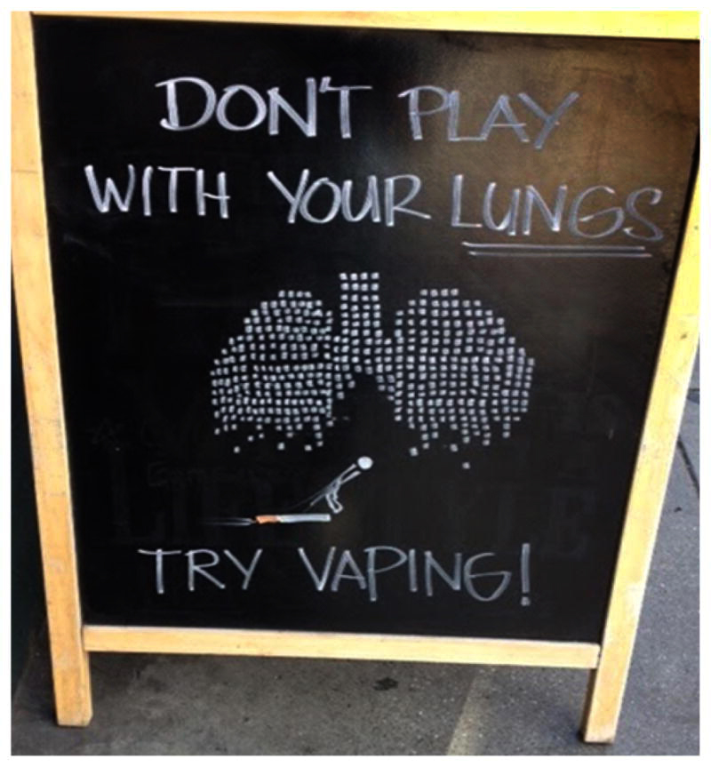 Don't play with your lungs